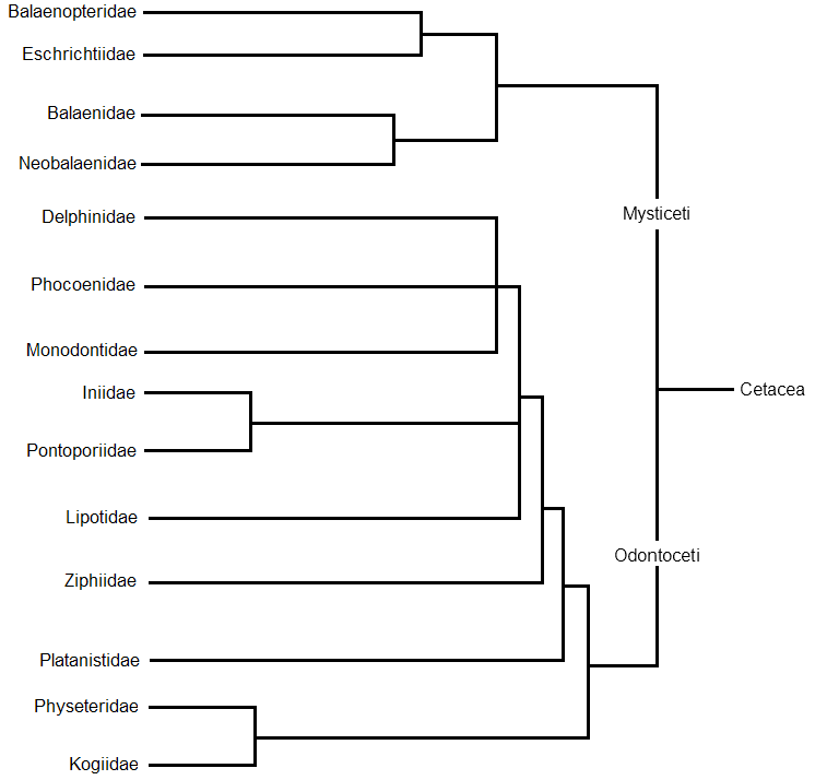 Phylogenic Tree of the order Cetacea